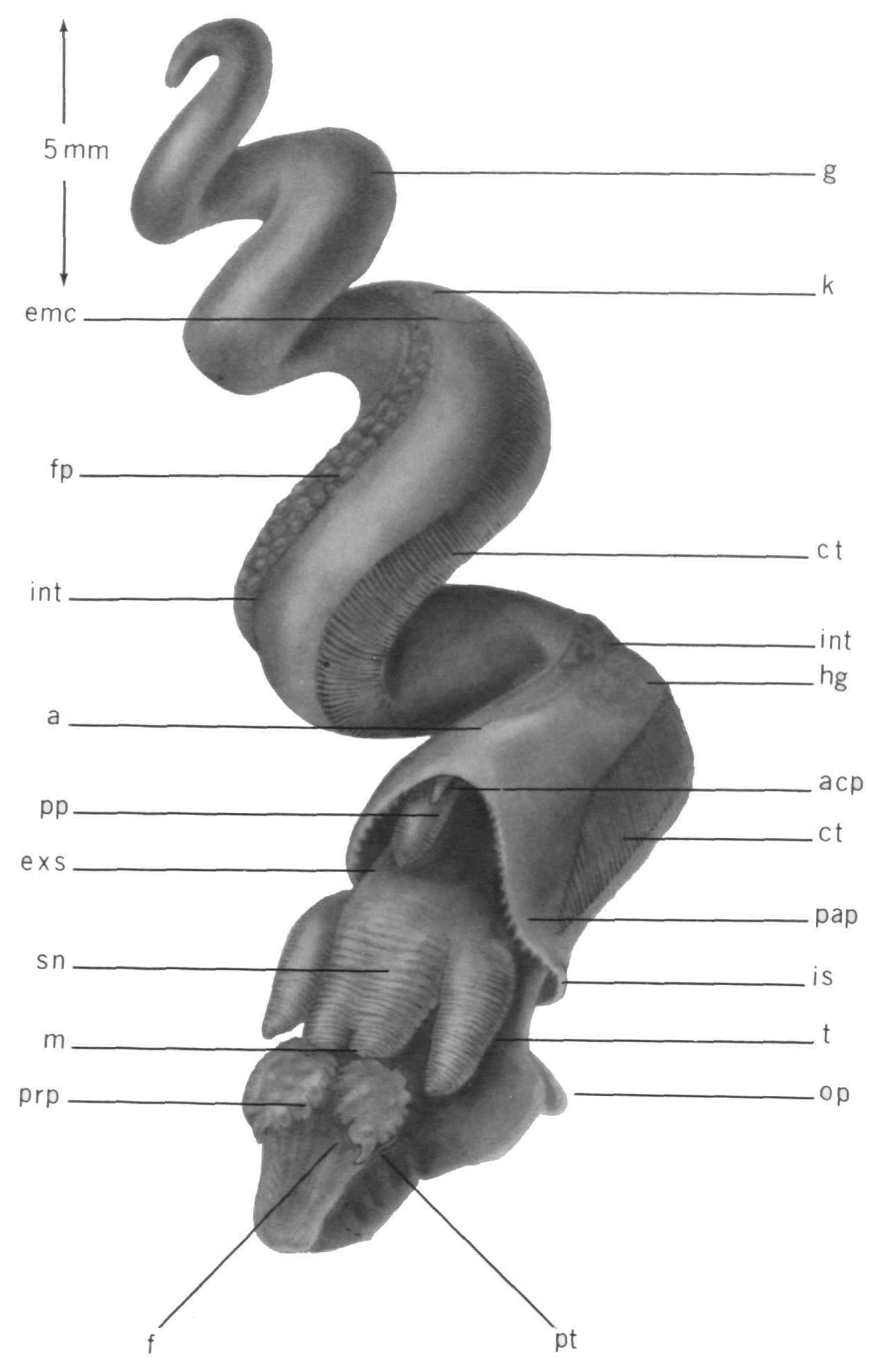 Anatomy of Abyssochrysos melanioides removed from the shell. a = anus; acp = accessory copulatory process; ct — ctenidium; d = duct leading to pallial penis; ebw = end of first whorl; emc = end of mantle cavity; es = esophagus; esg = esophageal gland; exs = exhalant siphon; f = foot; fp = fecal pellet; g = gonad; hg = hypobranchial gland; int = intestine; is — incurrent siphon; k = kidney; m = mouth; me = mantle edge; op = operculum; os = osphradium; pap = pallial papillae; pg = pallial gonoduct; pp = pallial process (penis); prp = propodium; pt = propodial tentacle; sn = snout; t = tentacle.